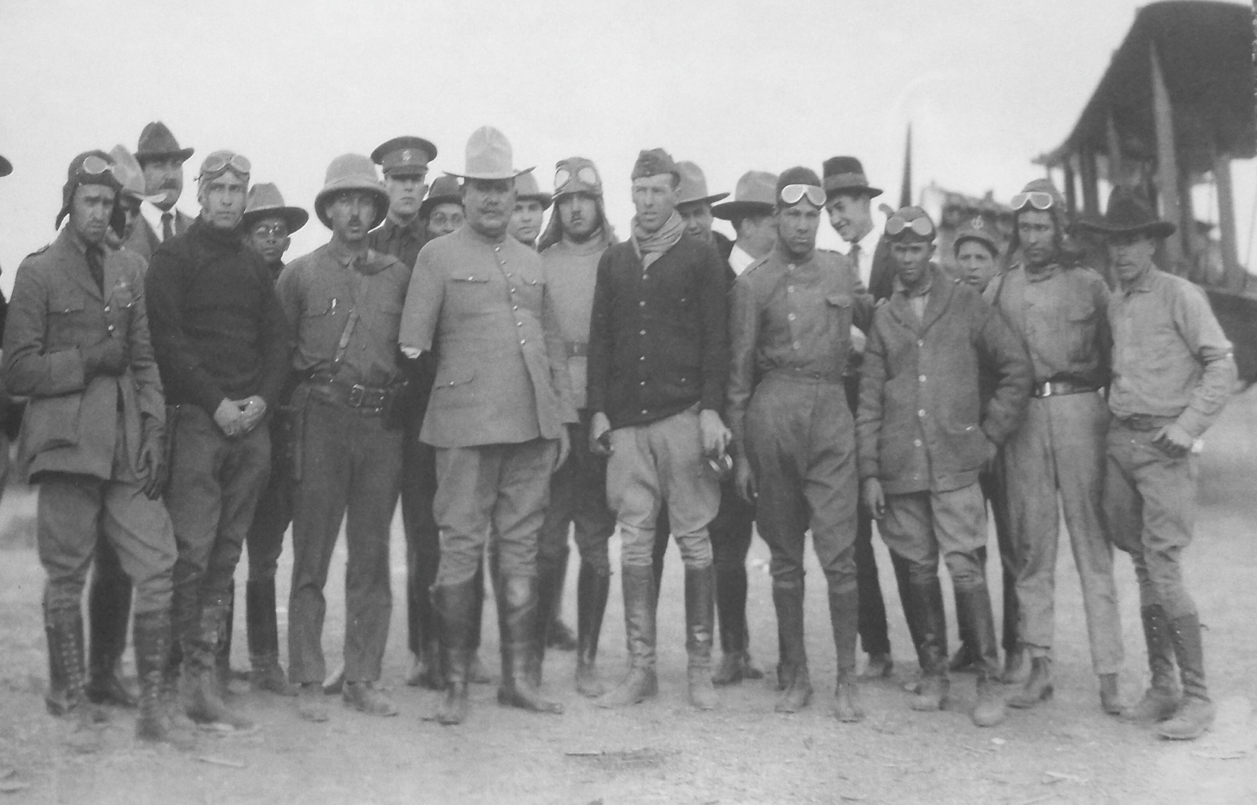 General ONeill con Presidente Obregón